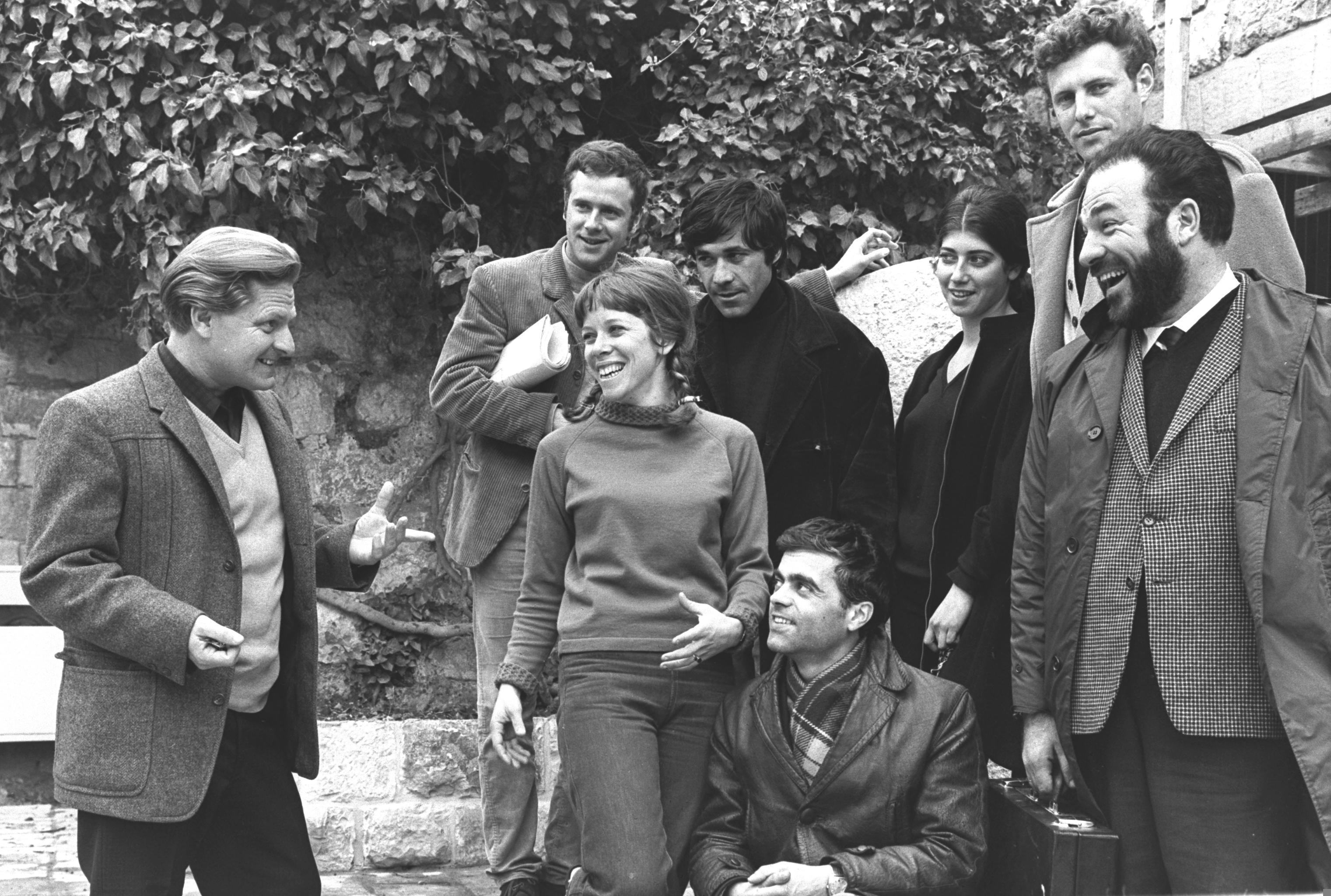 The art director of the Khan Theatre group Philip Diskin (L). L-R, Zur Shapira, Neomi Grinbaum, Aharon Almog, Saviona Ben Yaakov, Yoram Cohen, Jacques Cohen.